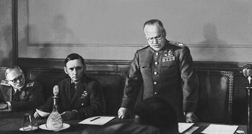 General Zhukov reading the German Instrument of Surrender in Berlin, Germany on March 8, 1945. Also seen Arthur Tedder, Marshal of the Royal Air Force